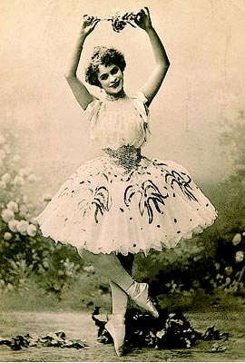 Lubov Roslavleva